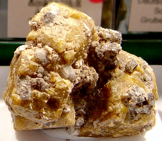 Vesuvianite I took this photo in october 2005